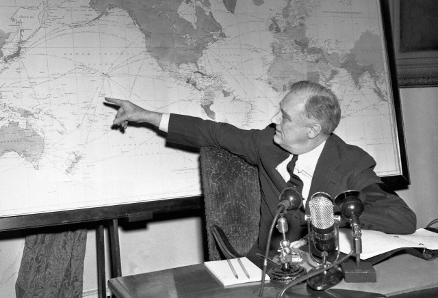 President Roosevelt, in the Oval Room of the White House, refers to his own map as he emphasizes a point in his radio address to the peopleRoosevelt's fireside chat was presented February 23, 1942. In advance of the address Roosevelt asked citizens to have a world map in front of them as they listened to him speak. "I'm going to speak about strange places that many of them never heard of—places that are now the battleground for civilization," he told his speechwriters. "I want to explain to the people something about geography—what our problem is and what the overall strategy of the war has to be. … If they understand the problem and what we are driving at, I am sure that they can take any kind of bad news right on the chin." Sales of new maps and atlases were unprecedented, while many people retrieved old commercial maps from storage and pinned them up on their walls.